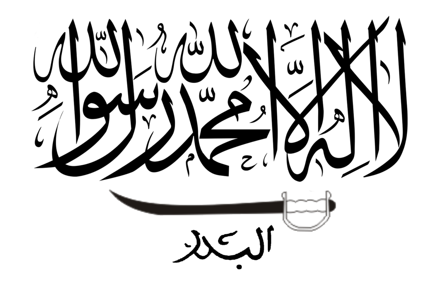 Flag of Al-Badr, Islamic militant group operating in the Jammu Kashmir region, identified as a terrorist organisation by India and the U.S.A.